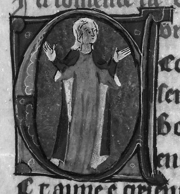 St Osyth depicted on folio 134v of British Library MS Additional 70513.